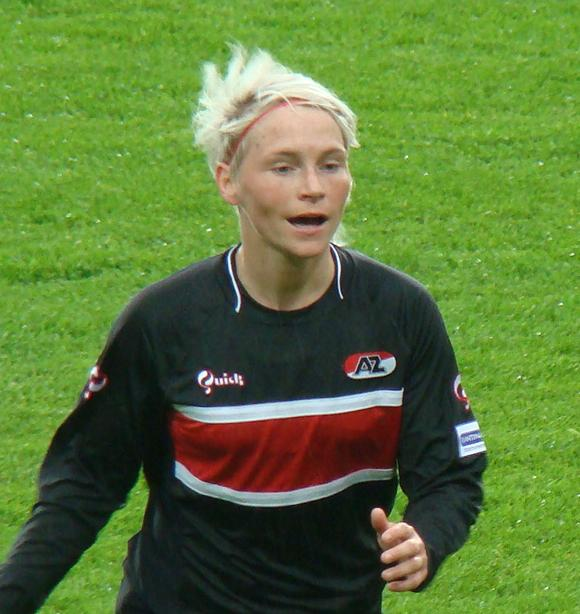 AZ player Jessica Fishlock